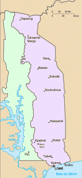 Map of Togoland, showing the delimitation between French Togoland (or former German Togoland, in today's Togo) in purple, and British Togoland (which became part of British Gold Coast, today's Ghana) in green.